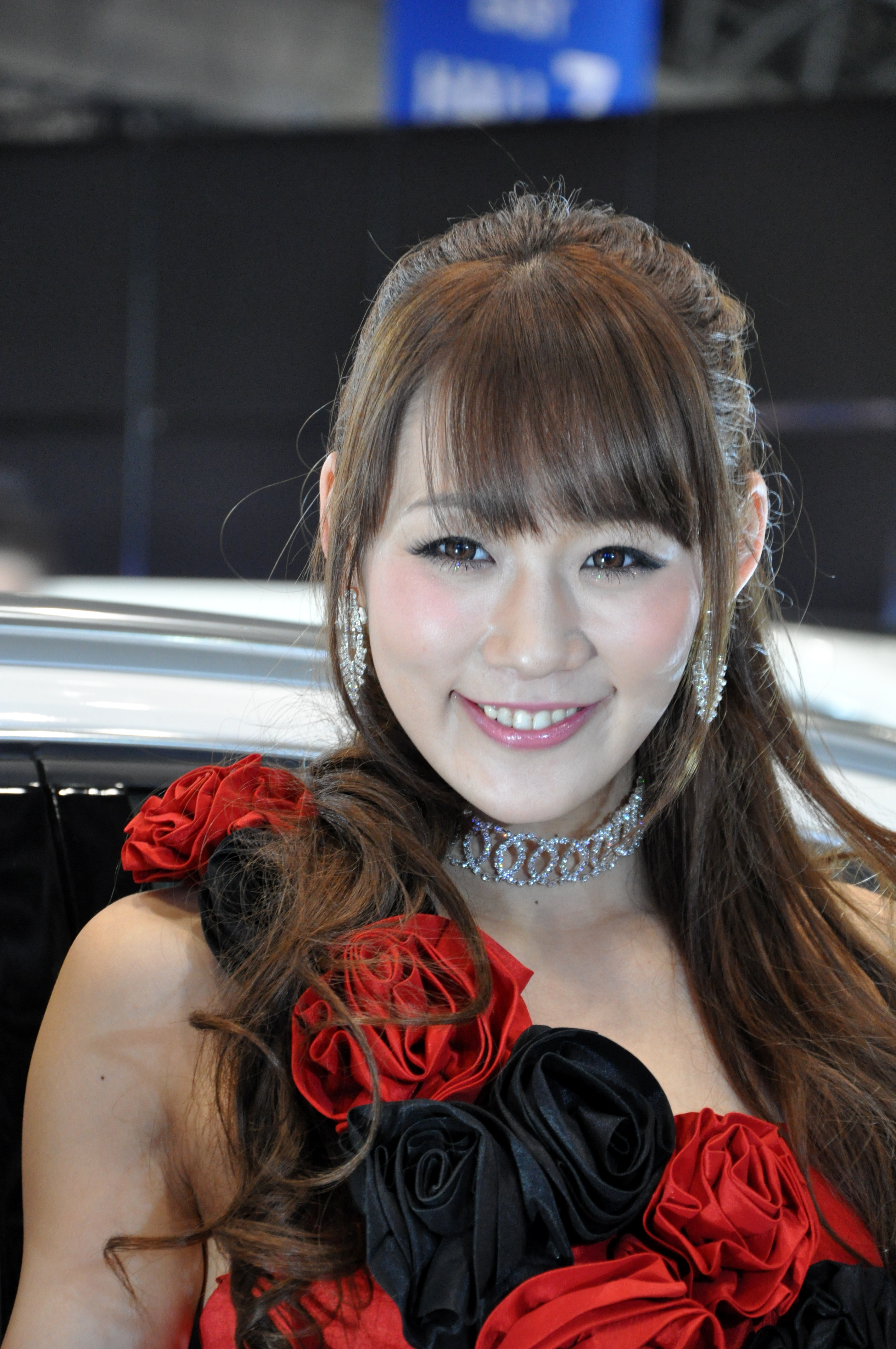 TOKYO AUTO SALON 2014 with NAPAC_032